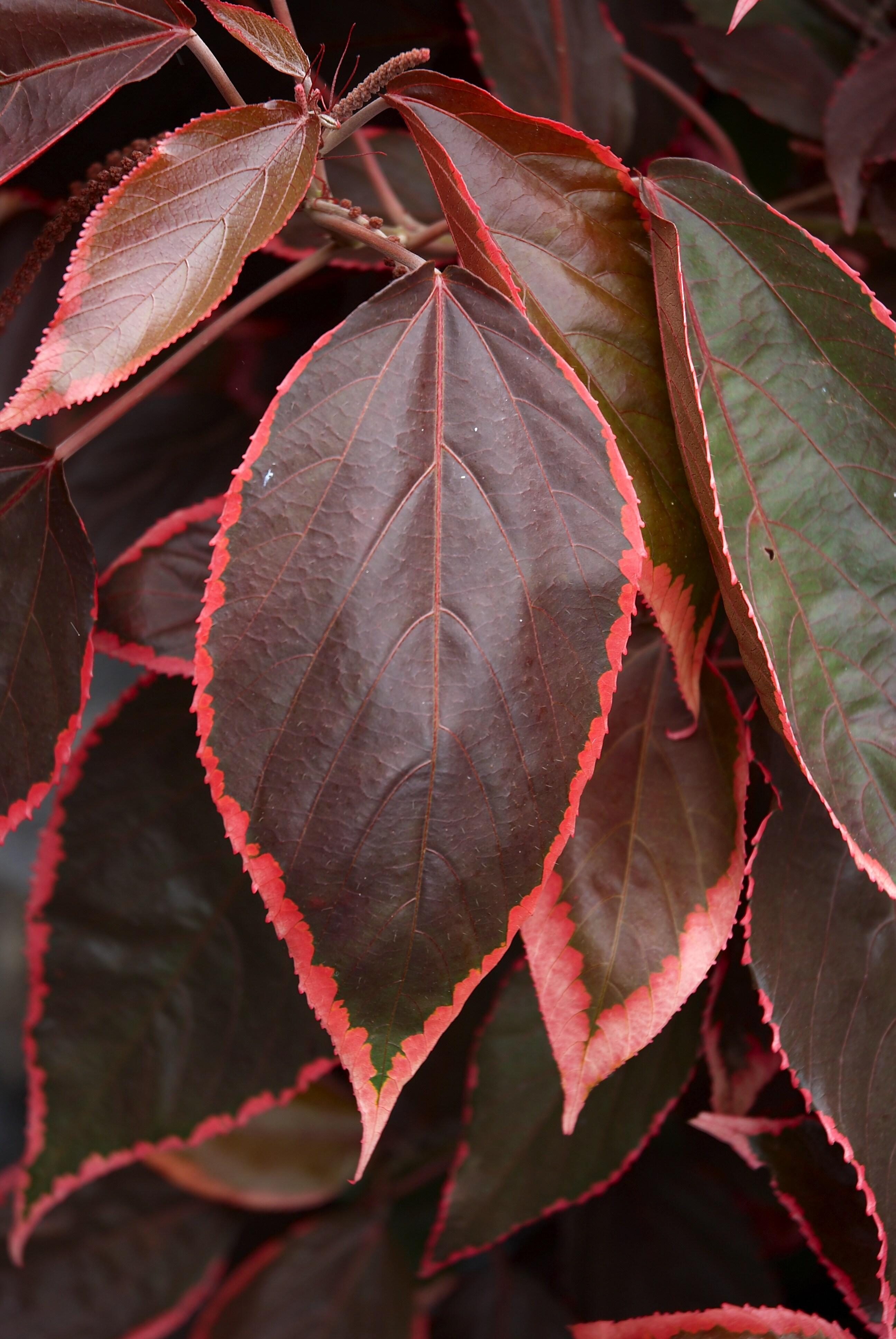 Acalypha wilkesiana 'Marginata'. Photo was taken in in Pueblochico, La Orotava Tenerife